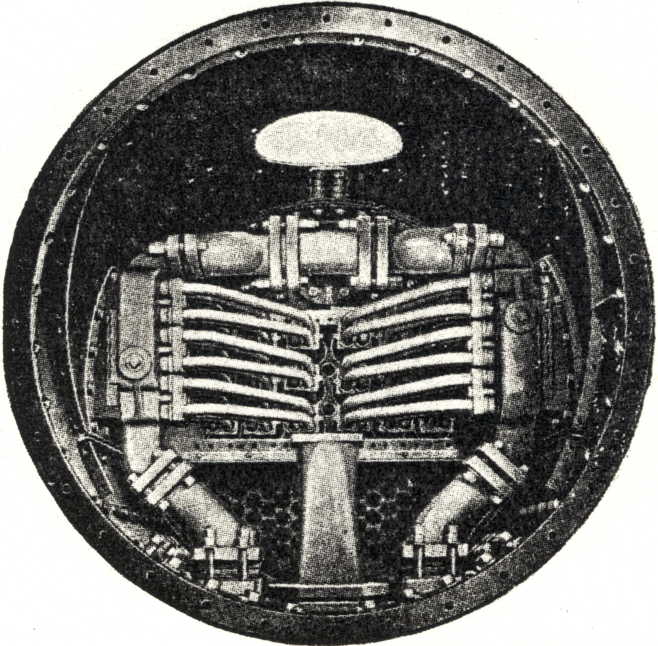 Cole superheater header in NGR American D no. 335